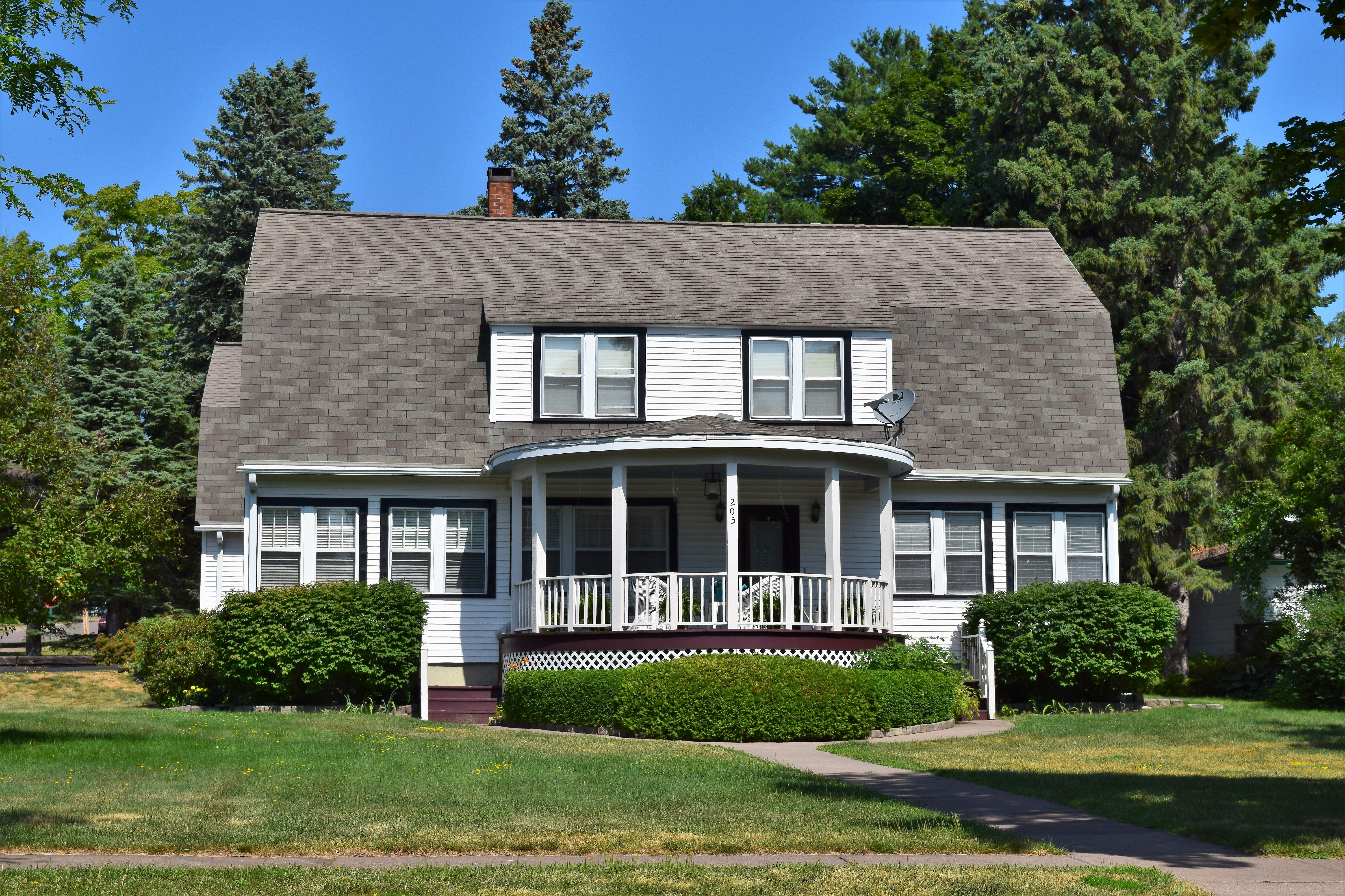 The house at 205 E. 3rd Street in Washburn, Wisconsin. The house is part of the East Third Street Residential Historic District, which is listed on the National Register of Historic Places.